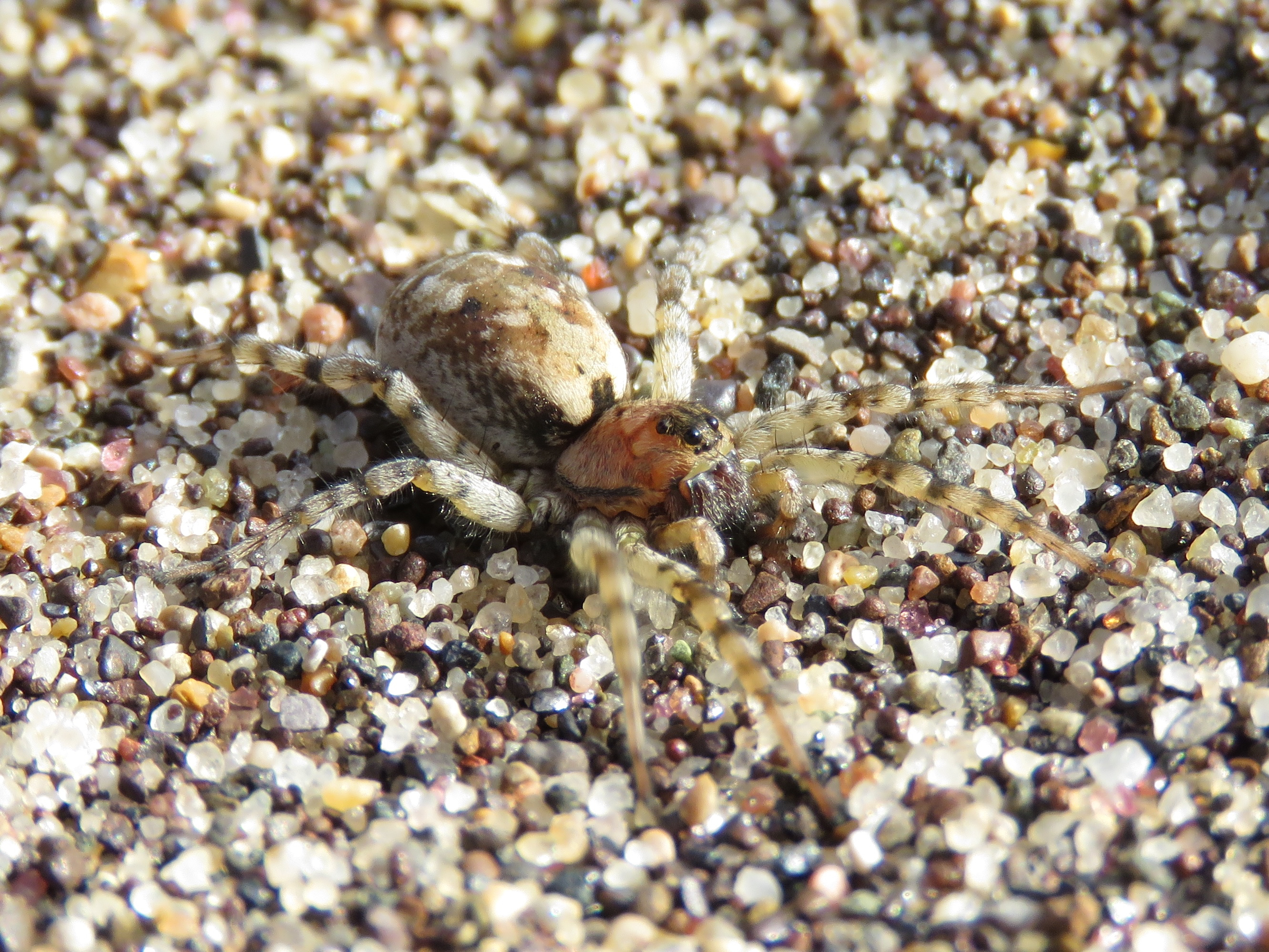 Female Arctosa perita.